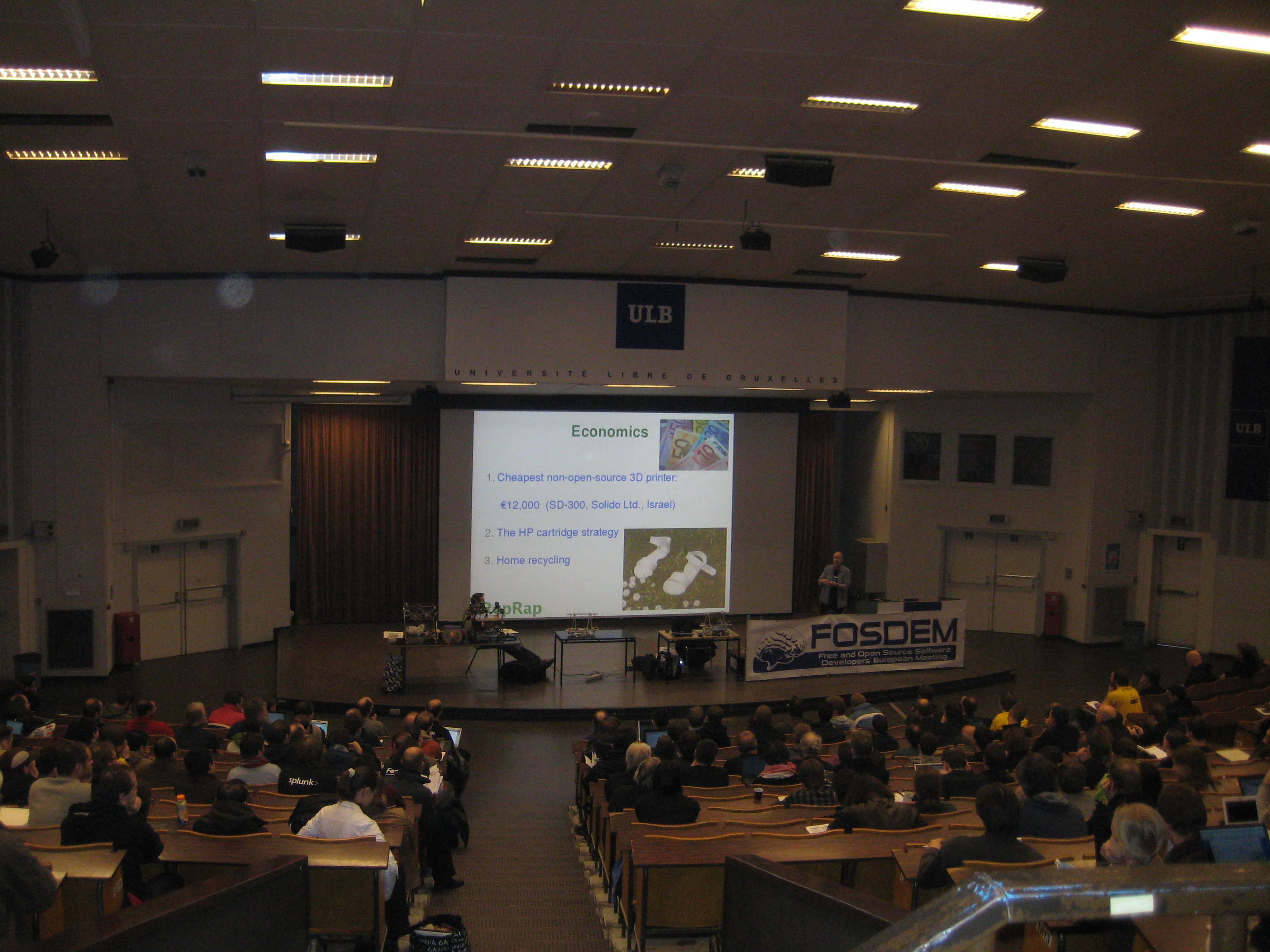 Adrian Bowyer at the FOSDEM 2010 conference.